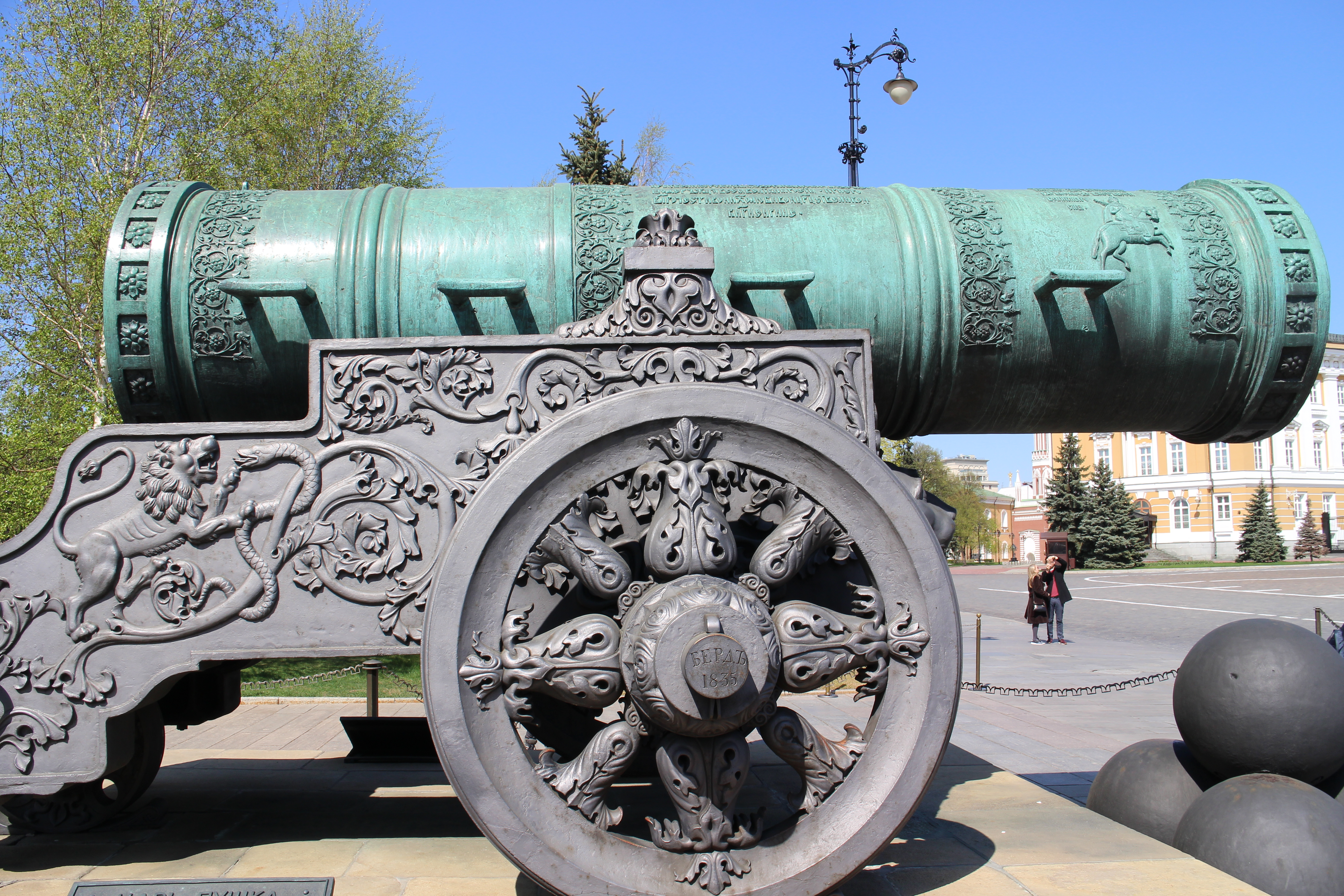 Tsar Cannon